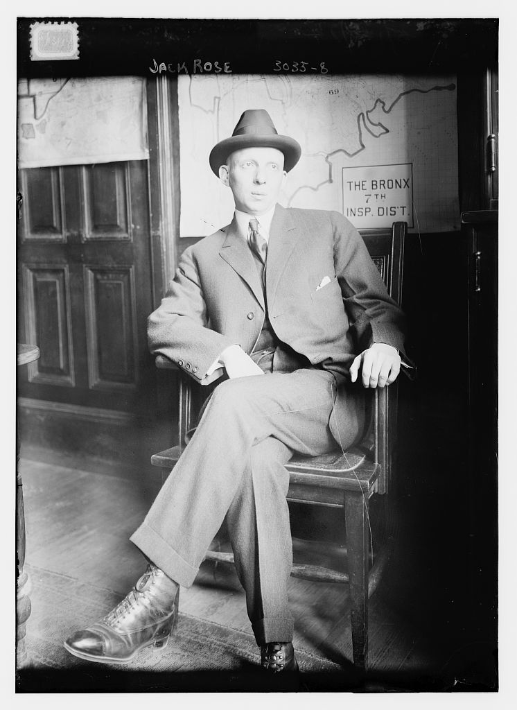 Jack Rose -- the Bronx - 7th Insp. Dist. (LOC) Bain News Service,, publisher. Jack Rose -- the Bronx - 7th Insp. Dist. circa 1914-1915 [between ca. 1910 and ca. 1915] 1 negative : glass ; 5 x 7 in. or smaller. Notes: Title from unverified data provided by the Bain News Service on the negatives or caption cards. Forms part of: George Grantham Bain Collection (Library of Congress). Format: Glass negatives. Repository: Library of Congress, Prints and Photographs Division, Washington, D.C. 20540 USA, General information about the Bain Collection is available at Persistent URL: Call Number: LC-B2- 3035-8